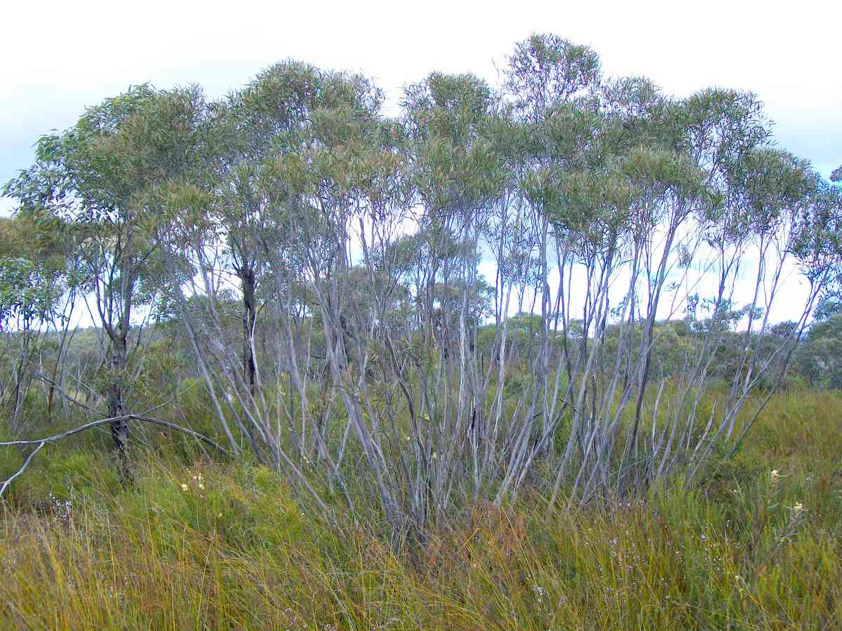 Eucalyptus stricta, Woodford, Blue Mountains